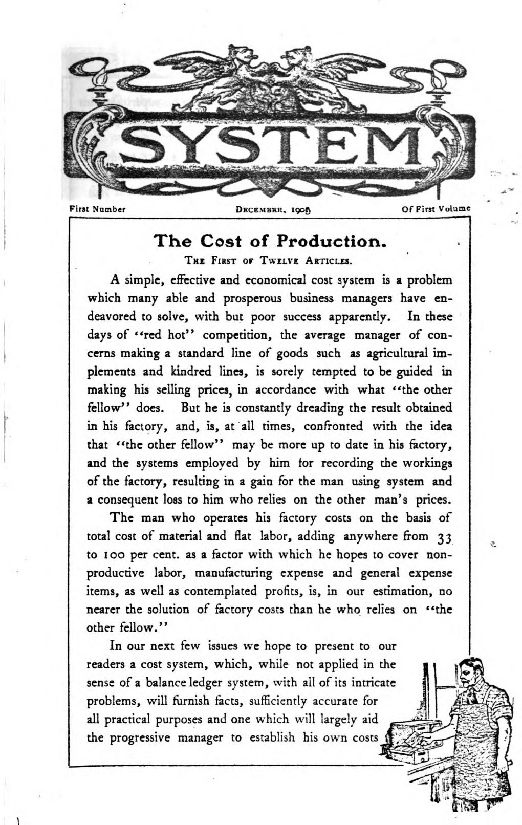 System, first number of first volume, December 1900